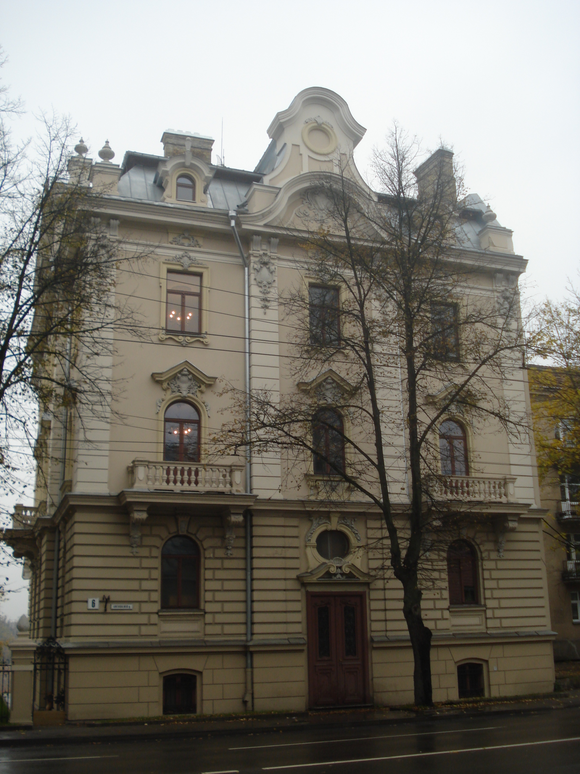 The Institute of Lithuanian Literature and Folklore in the palace of the Vileišis family (designed by August Klein, erected by Lithuanian engineer Petras Vileišisin in 1904-1906). Additional building. Vilnius, Antakalnio g. 6